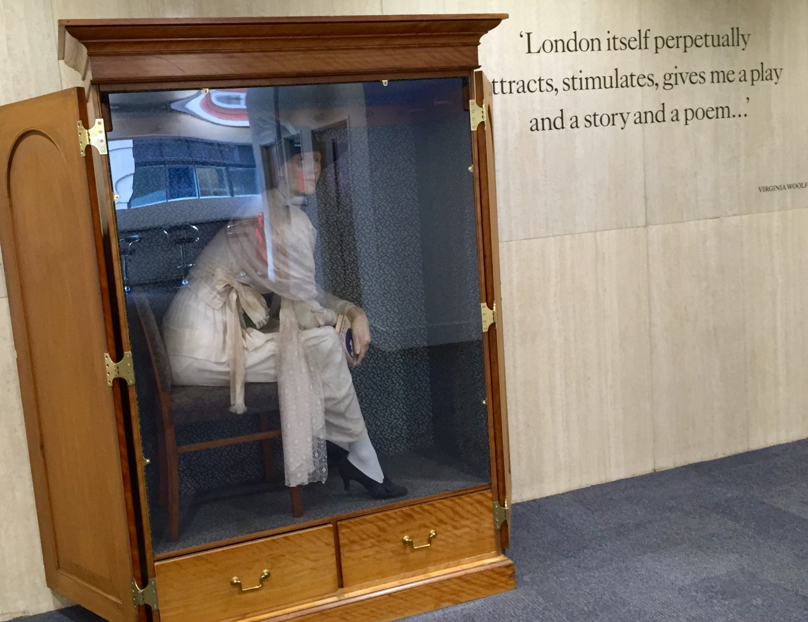 Auto-icon of Virginia Woolf at King's College London, with a short quote from the famous writer regarding her view of London. Taken at the Virginia Woolf Building of King's College London